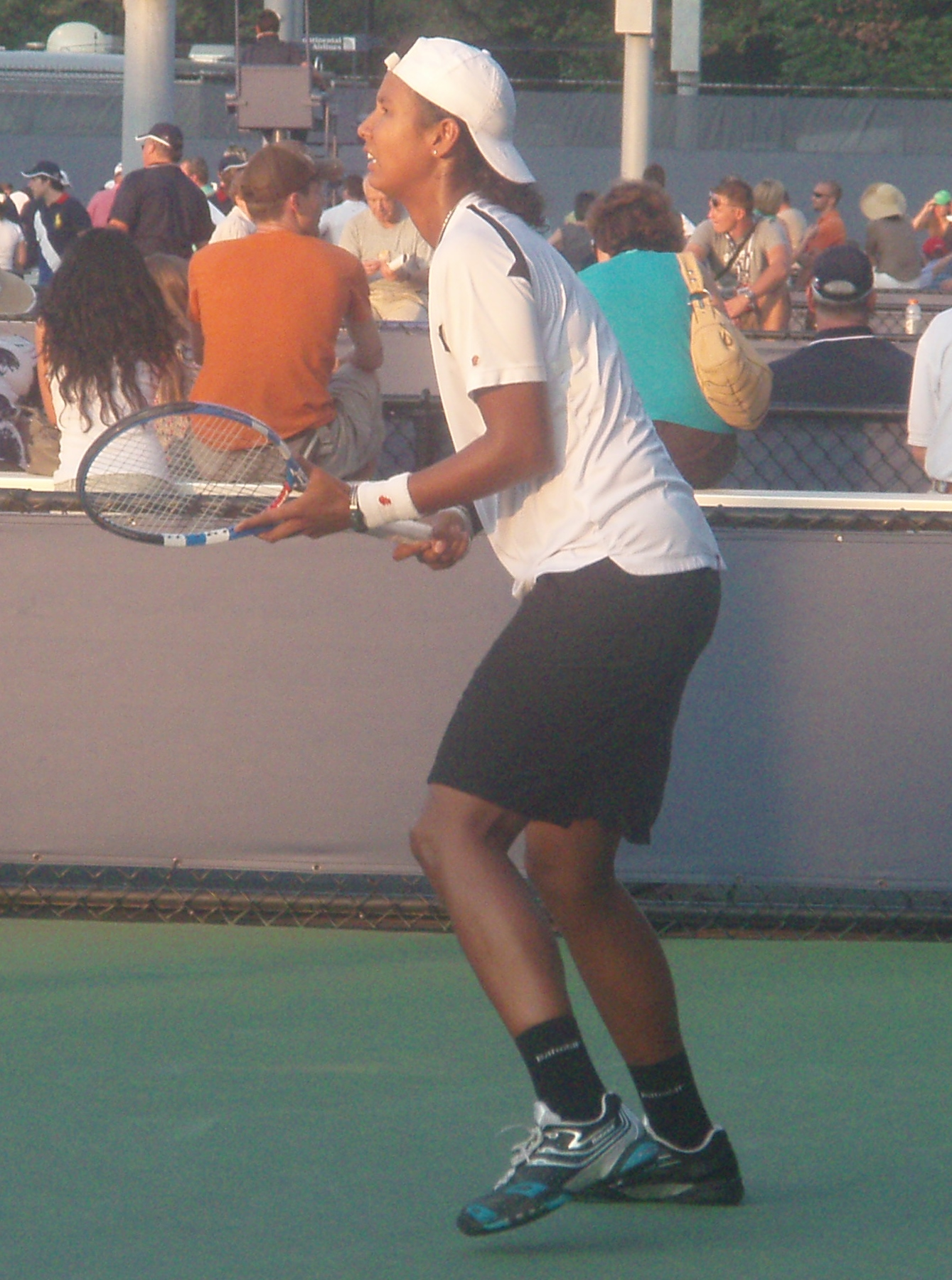 Akgul Amanmuradova at the US Open